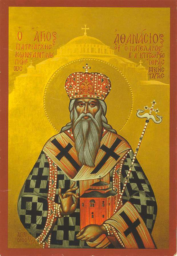 Athanasius III Patelaros, byzantine icon from Andreevsky Skete (Skiti Agiou Andrea), hOLY mOUNTAIN